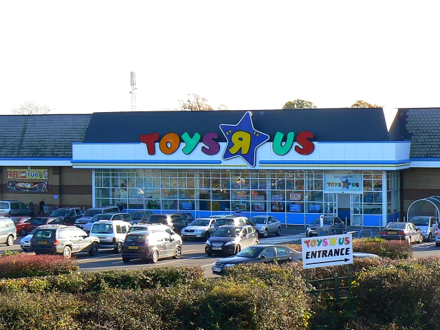 TOYS “Я” US (Toys R Us), Oxford Road, Swindon (2) This is a closer view of the Swindon branch of the popular retailer of more than just toys. Find your nearest branch here